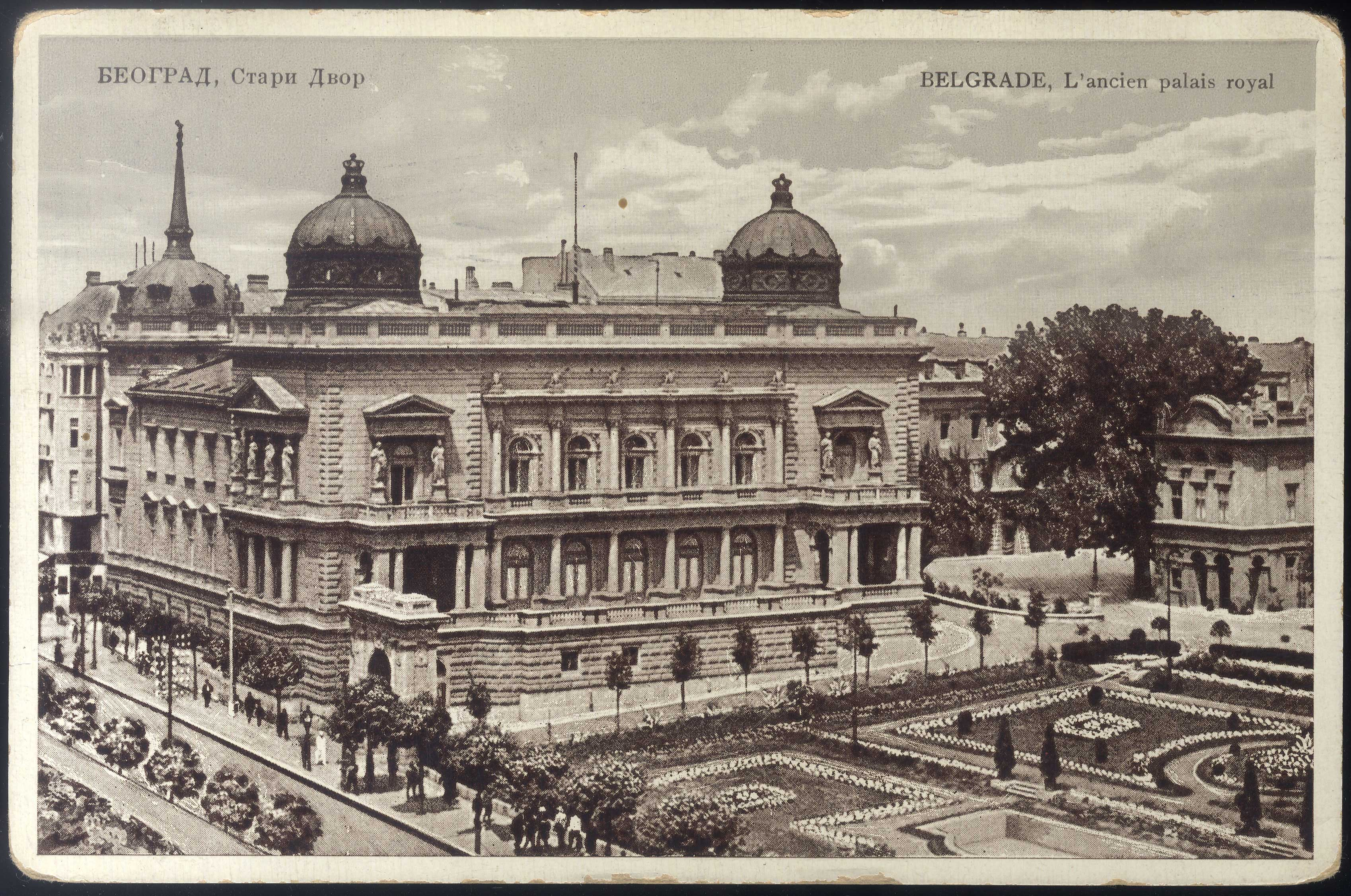 Old Court - Belgrade, 1930